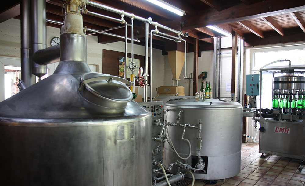 au baron brewery, brewhouse